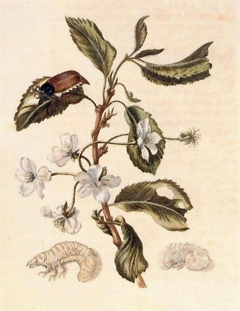 Illuminated copper-engraving from Der Raupen wunderbare Verwandlung und sonderbare Blumennahrung; part 1, plate IV.